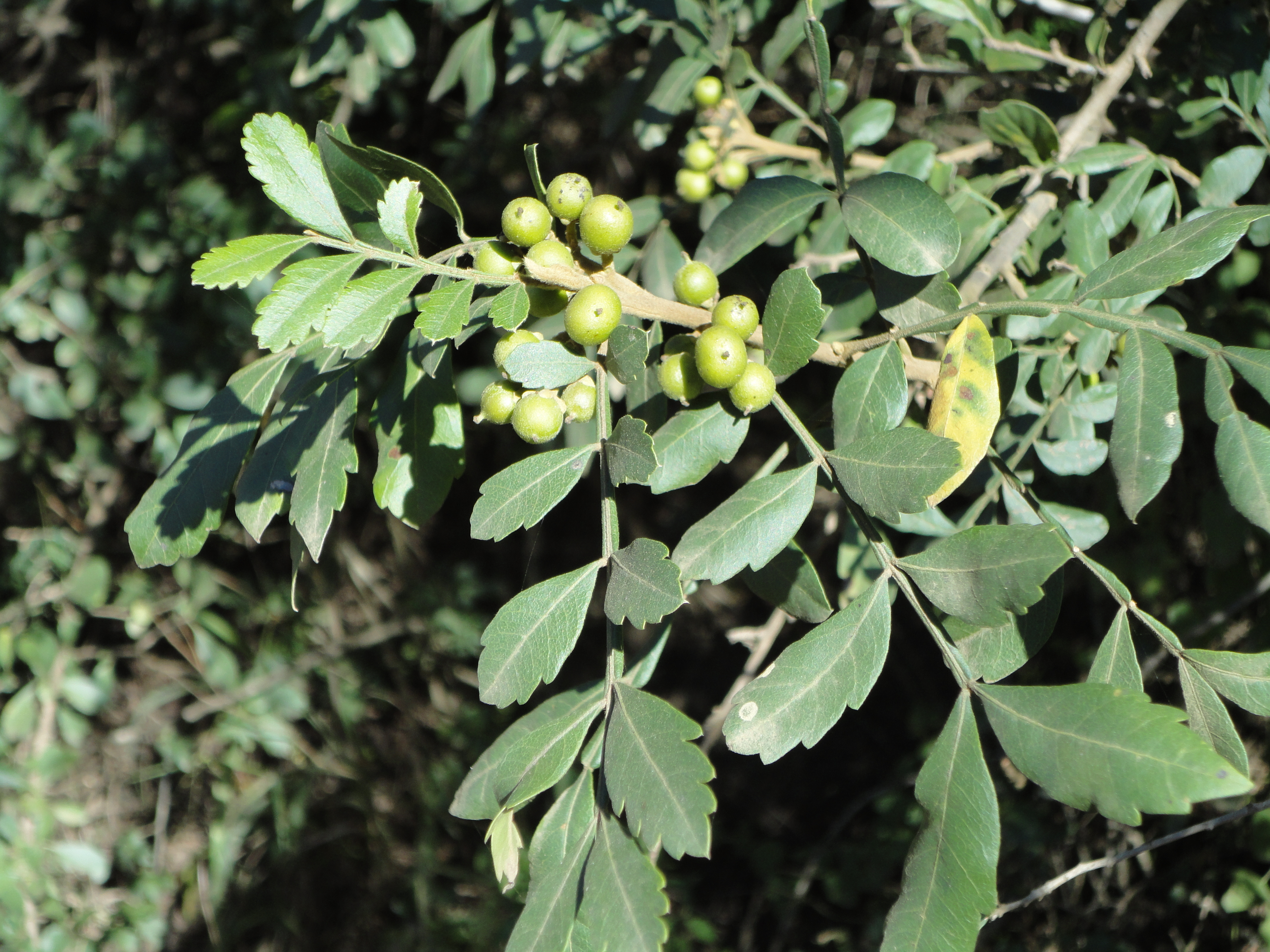 False Horsewood shrub with fruit, Bisley Valley, Pietermaritzburg IsiXhosa: uLwathile, umFazi onengxolo IsiZulu: uQhume, isiPhahluka